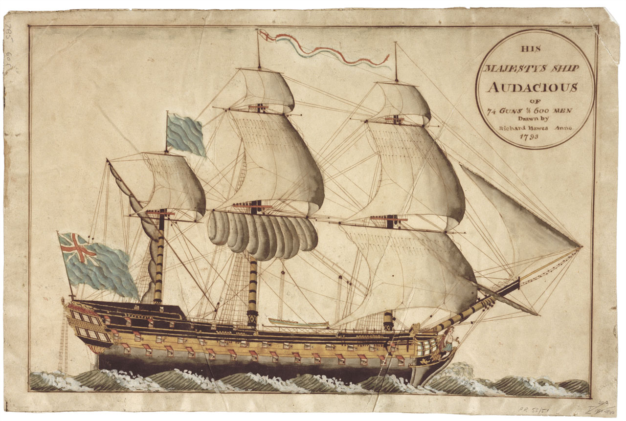 His Majestys Ship Audacious of 74 Guns & 600 men.